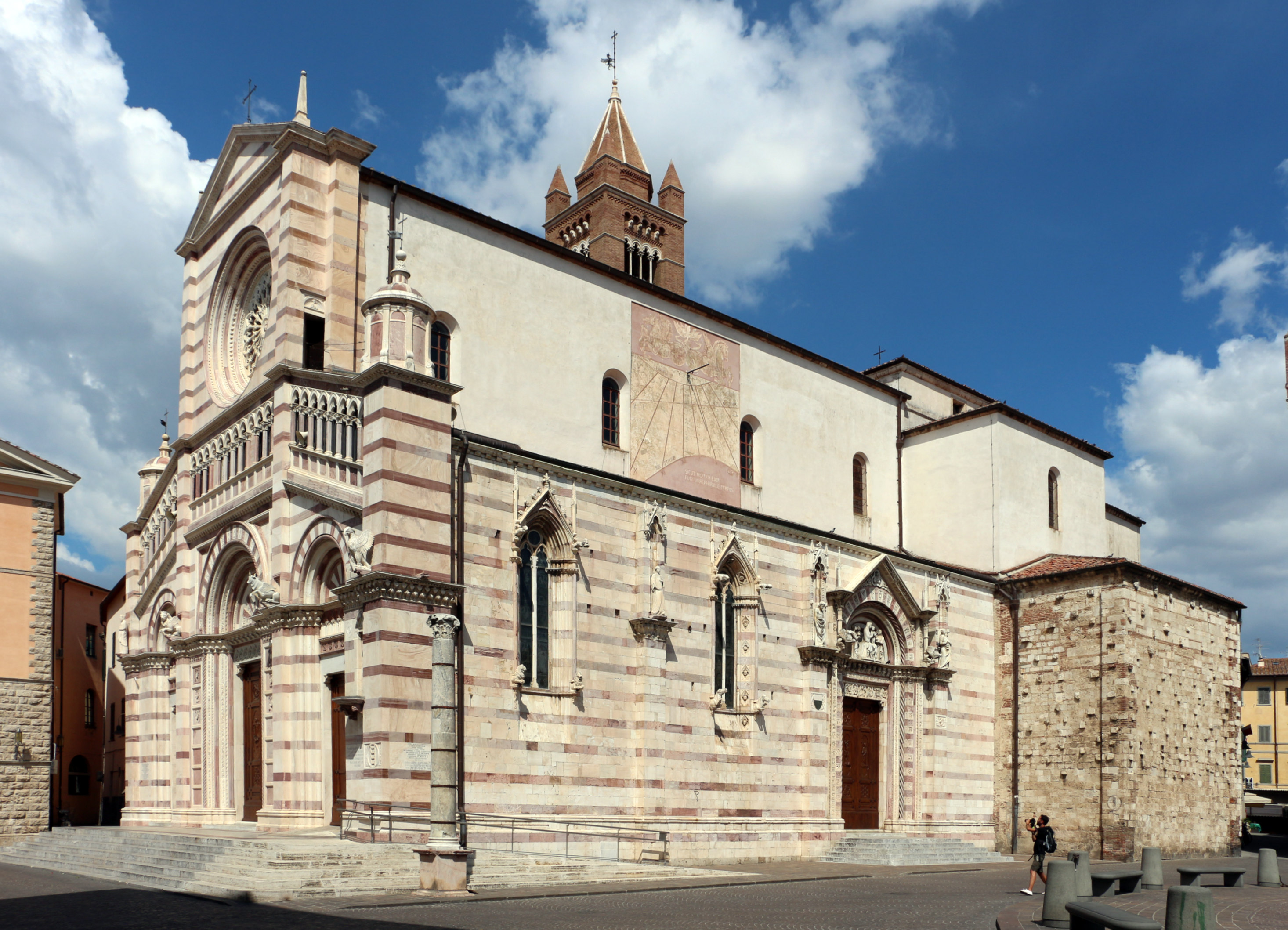 Duomo (Grosseto) - Interior